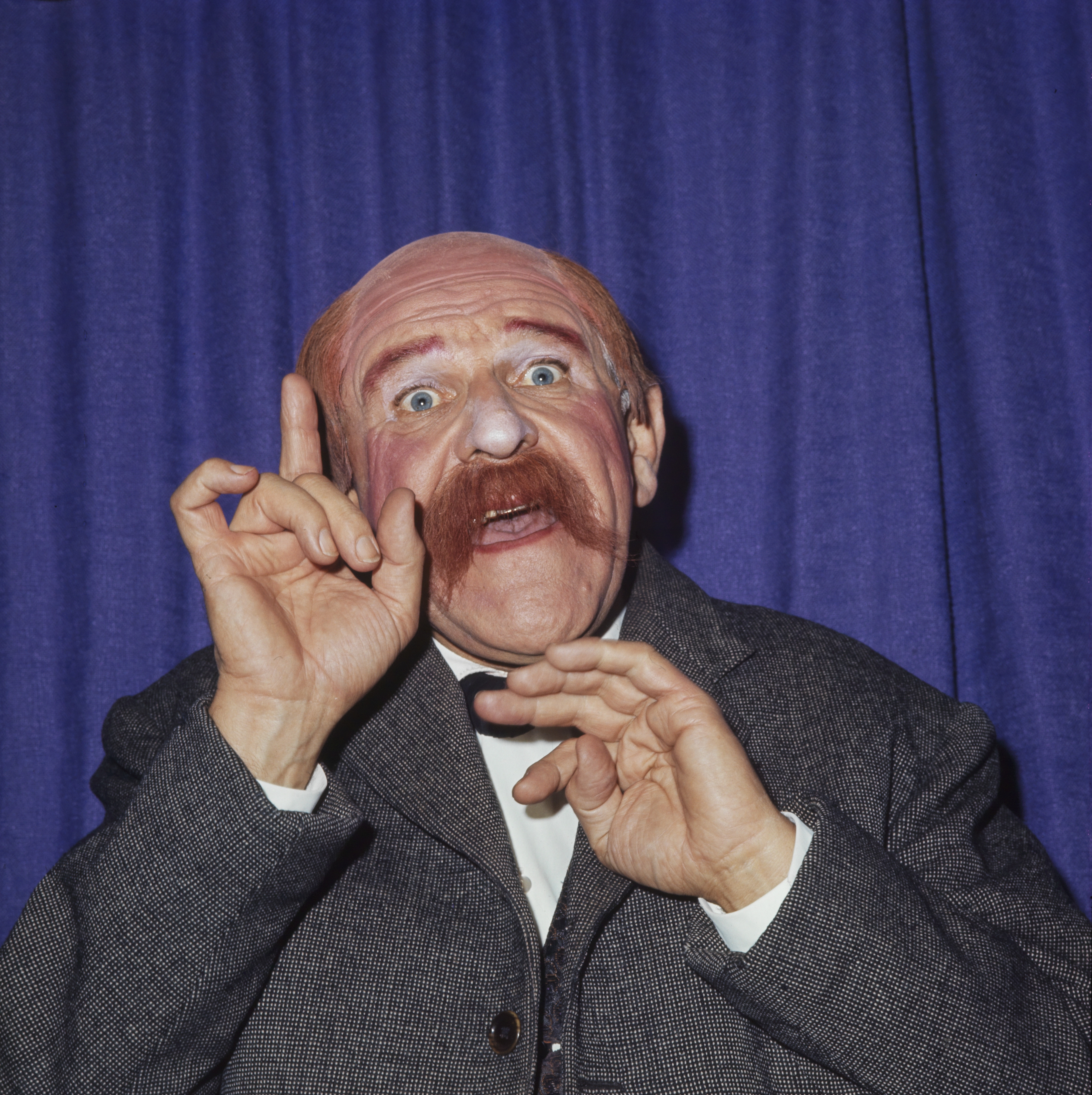 Alfred Rasser, Swiss comedian and member of parliament